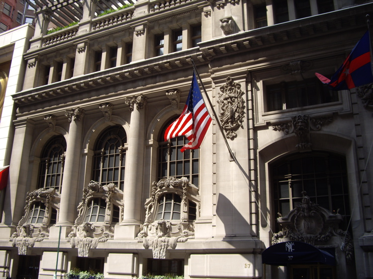 New York Yacht Club, Manhattan, New York New York Yacht Club claims trademark on the facade